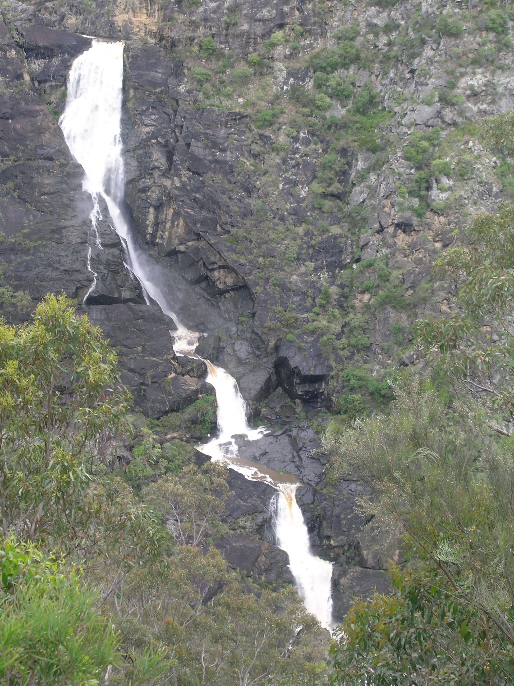 Tia Falls, NSW